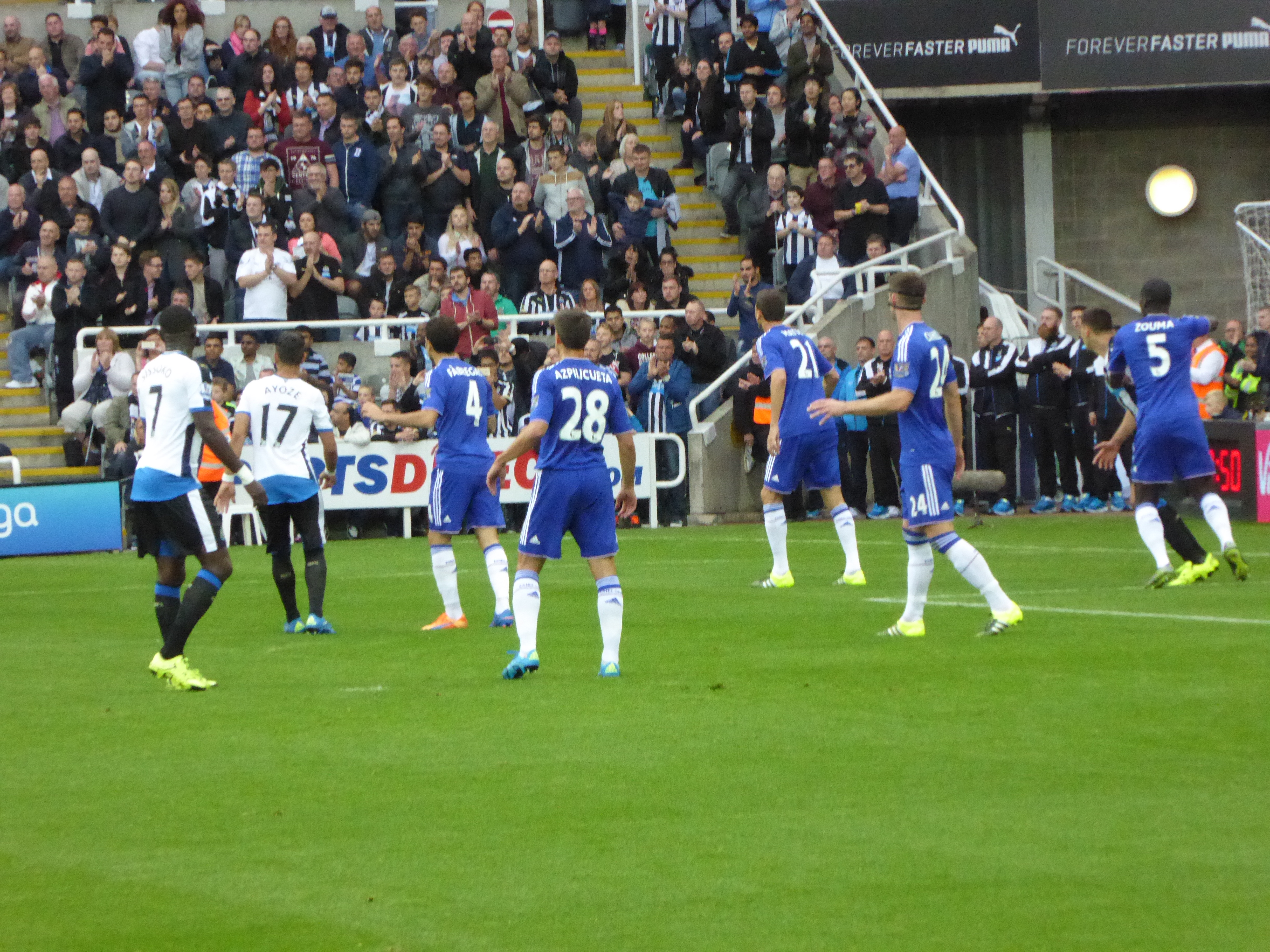 Newcastle United vs Chelsea (2-2), Barclays Premier League, St James' Park, Newcastle upon Tyne, Tyne and Wear, England, September 2015